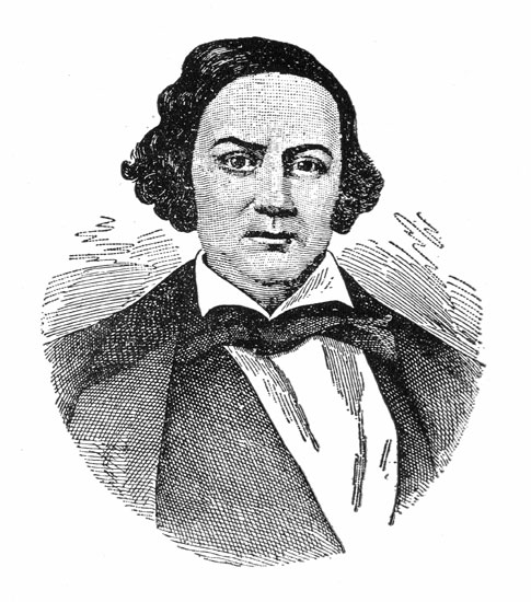 The Governor of Arkansas Samuel Adams (1805-1850)